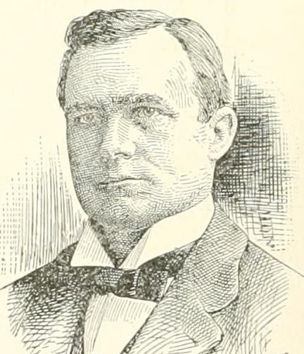 Albert James Campbell (Montana Congressman)